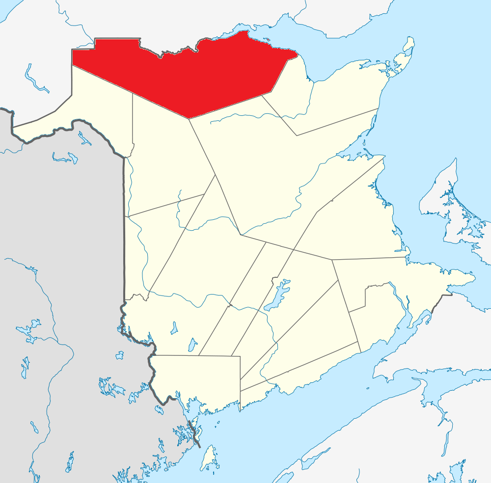 Map of New Brunswick highlighting Restigouche County